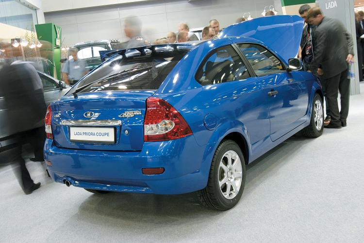 lada coupè